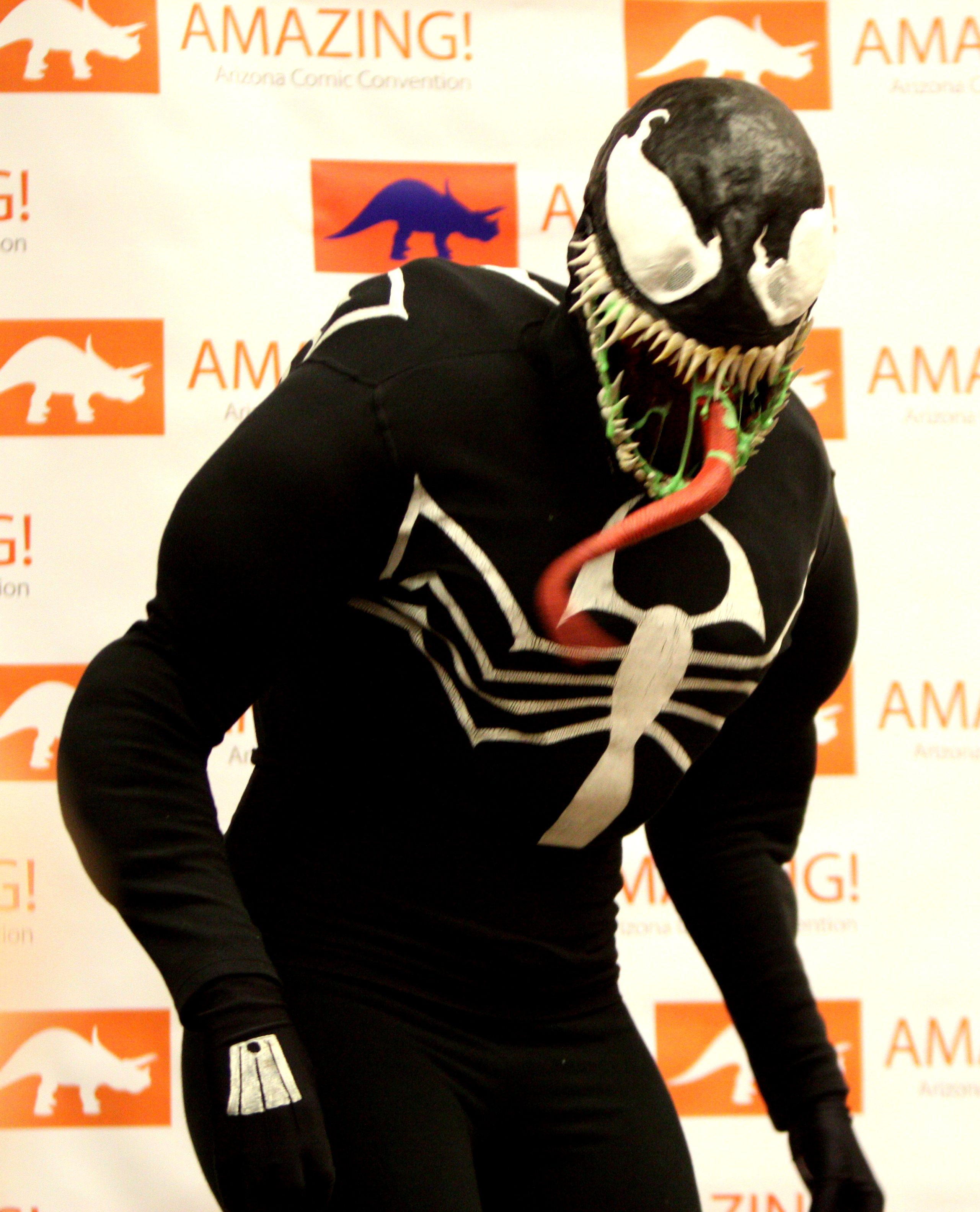 Venom Cosplay